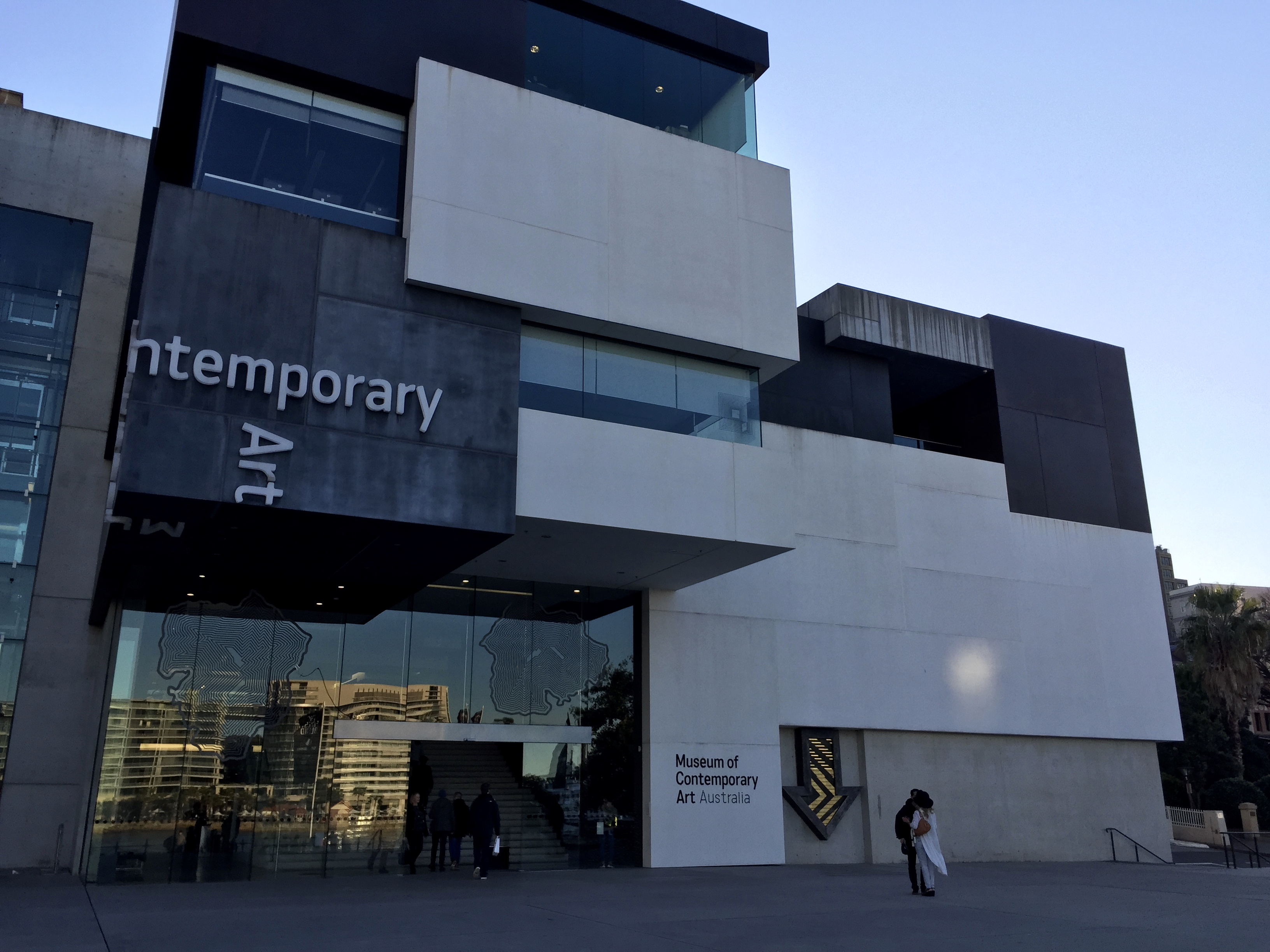 Museum of Contemporary Art in Sydney